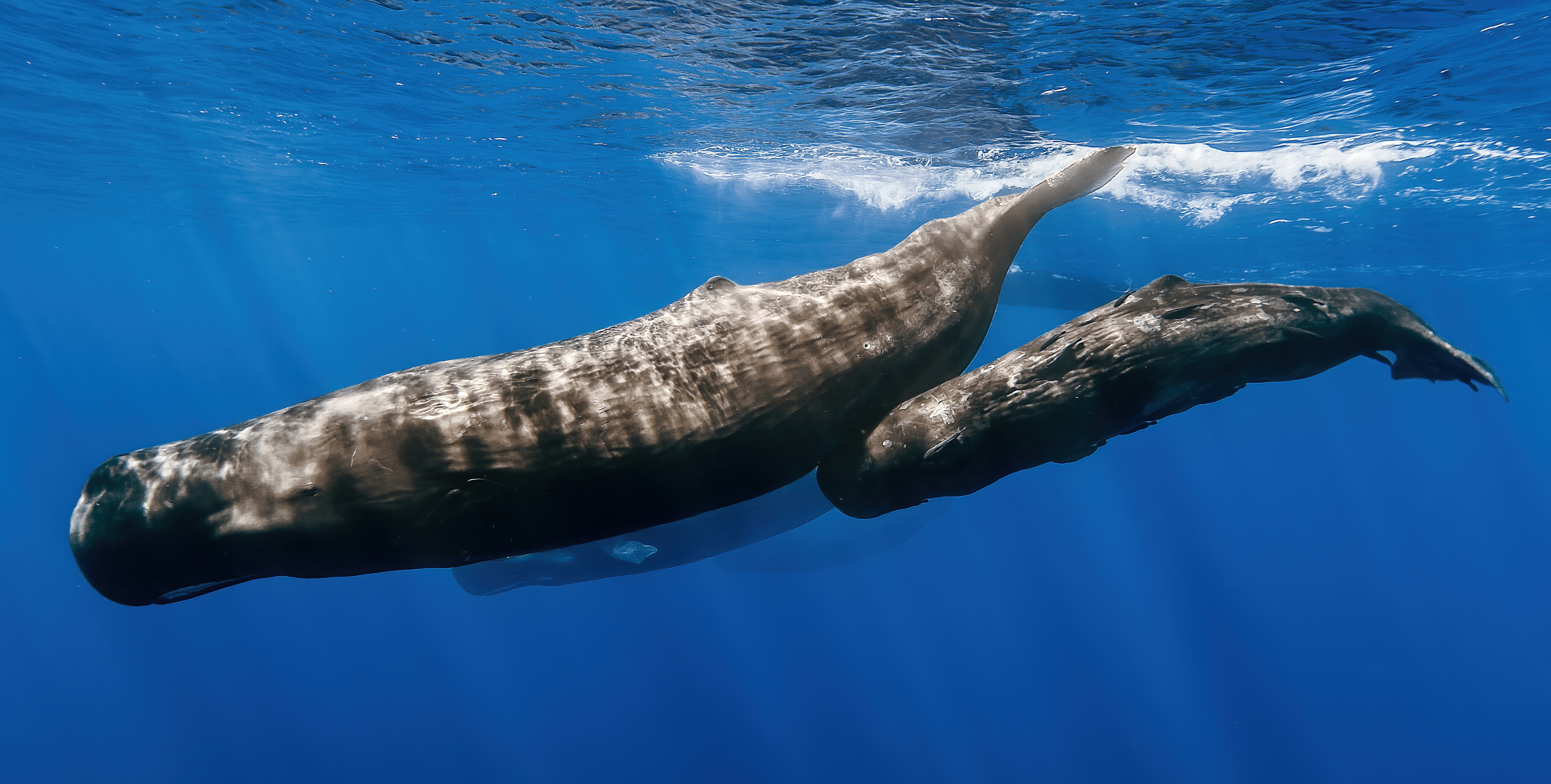 A pod of sperm whales off the coast of Mauritius. Retouched version of File:Sperm whale pod.jpg